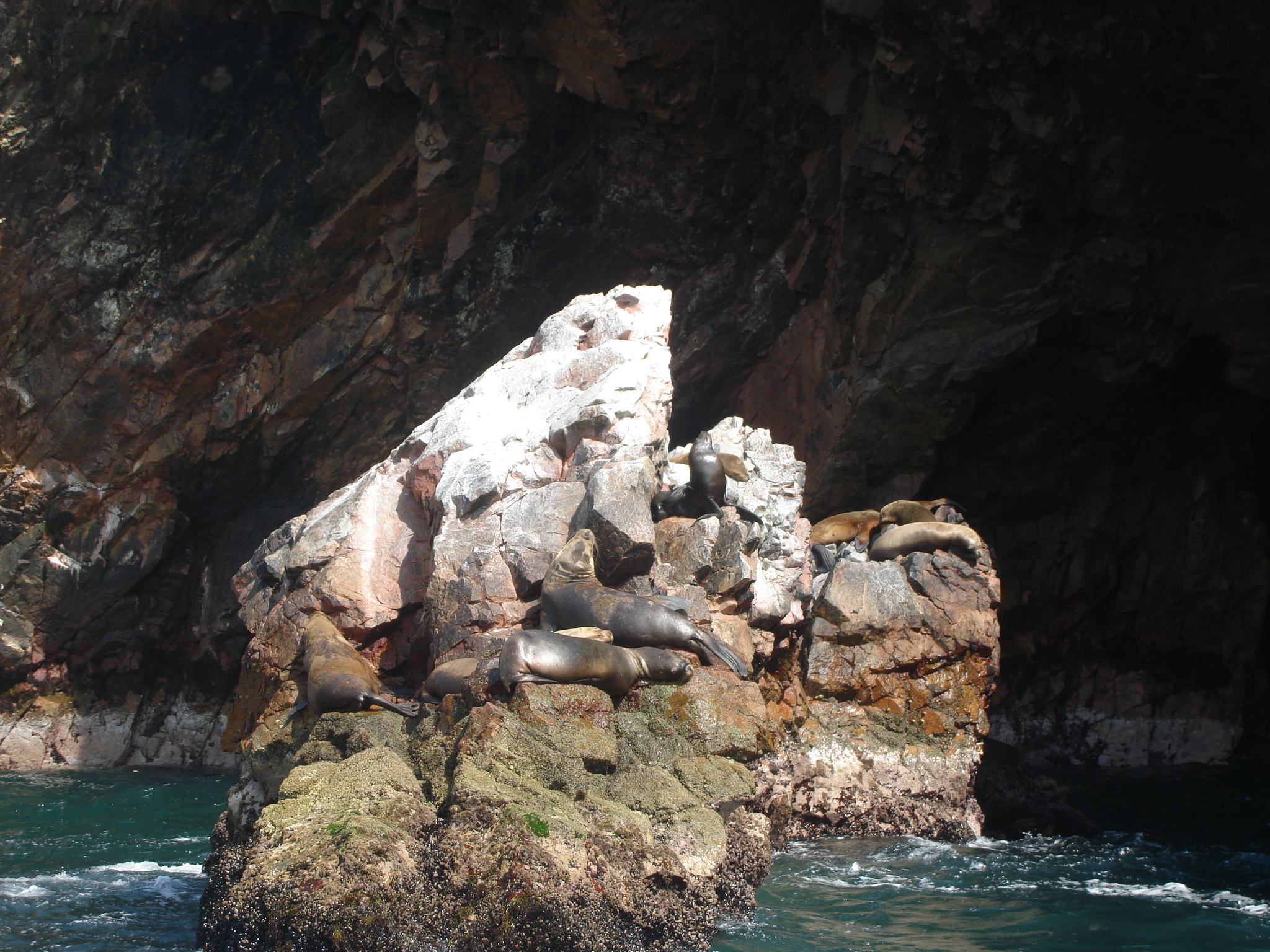 Description: Islas Ballestas Subject: Lobos marinos Place: Reserva Nacional de Paracas Country: Peru Photographer: © Victoria Alexandra González Olaechea Yrigoyen Shot date : December, 9th, 2006